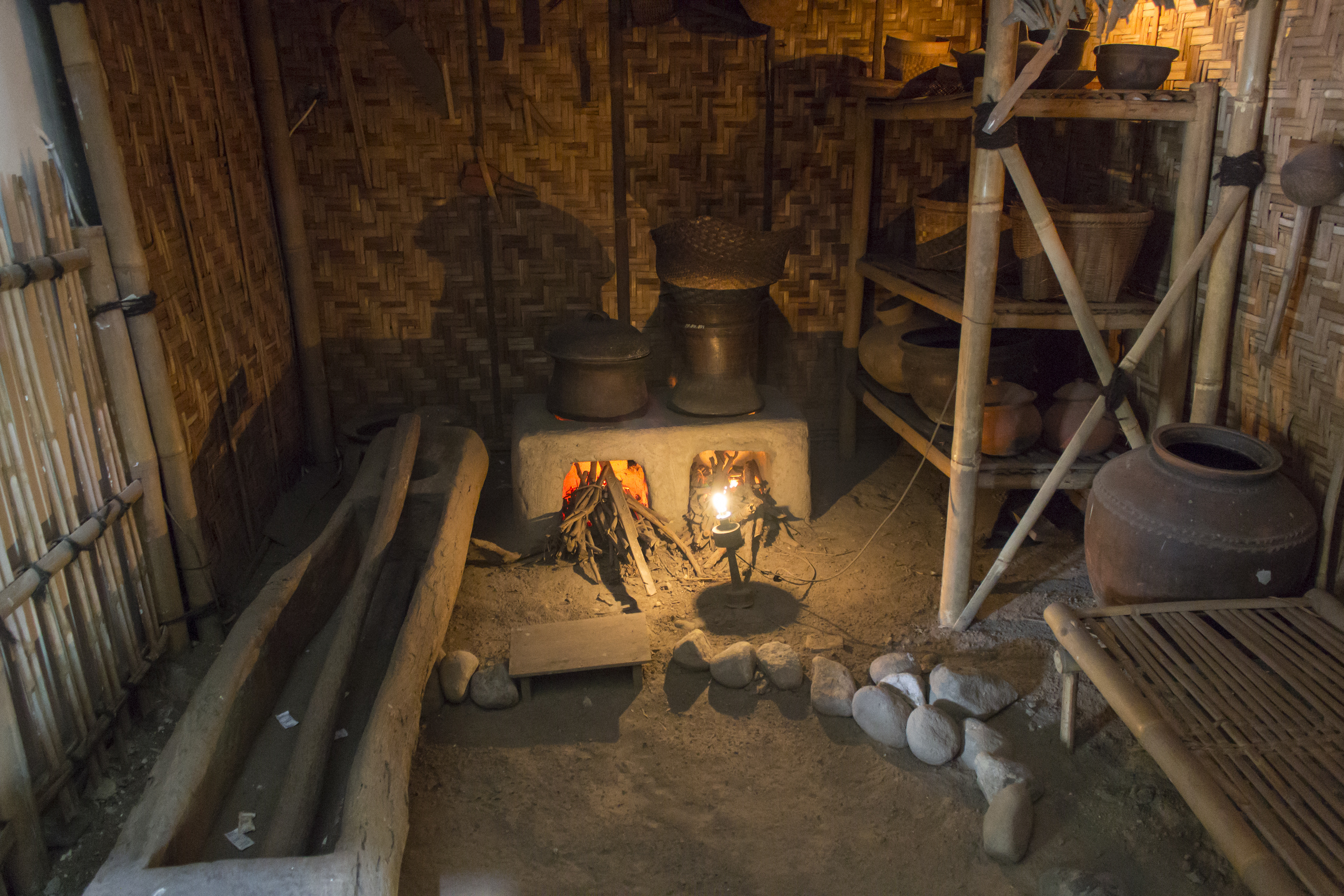 Field kitchen (Indonesian National Revolution) at Dharma Wiratama Museum